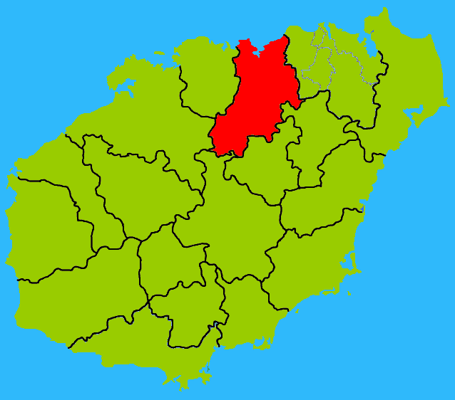 Hainan subdivisions - Chengmai County